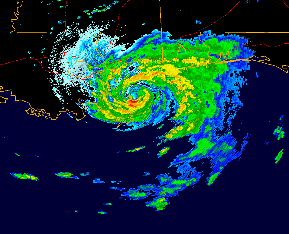 This is a radar image of Hurricane Danny, 1997, from NWS New Orleans NEXRAD radar and was made using JAVA NEXRAD tool.